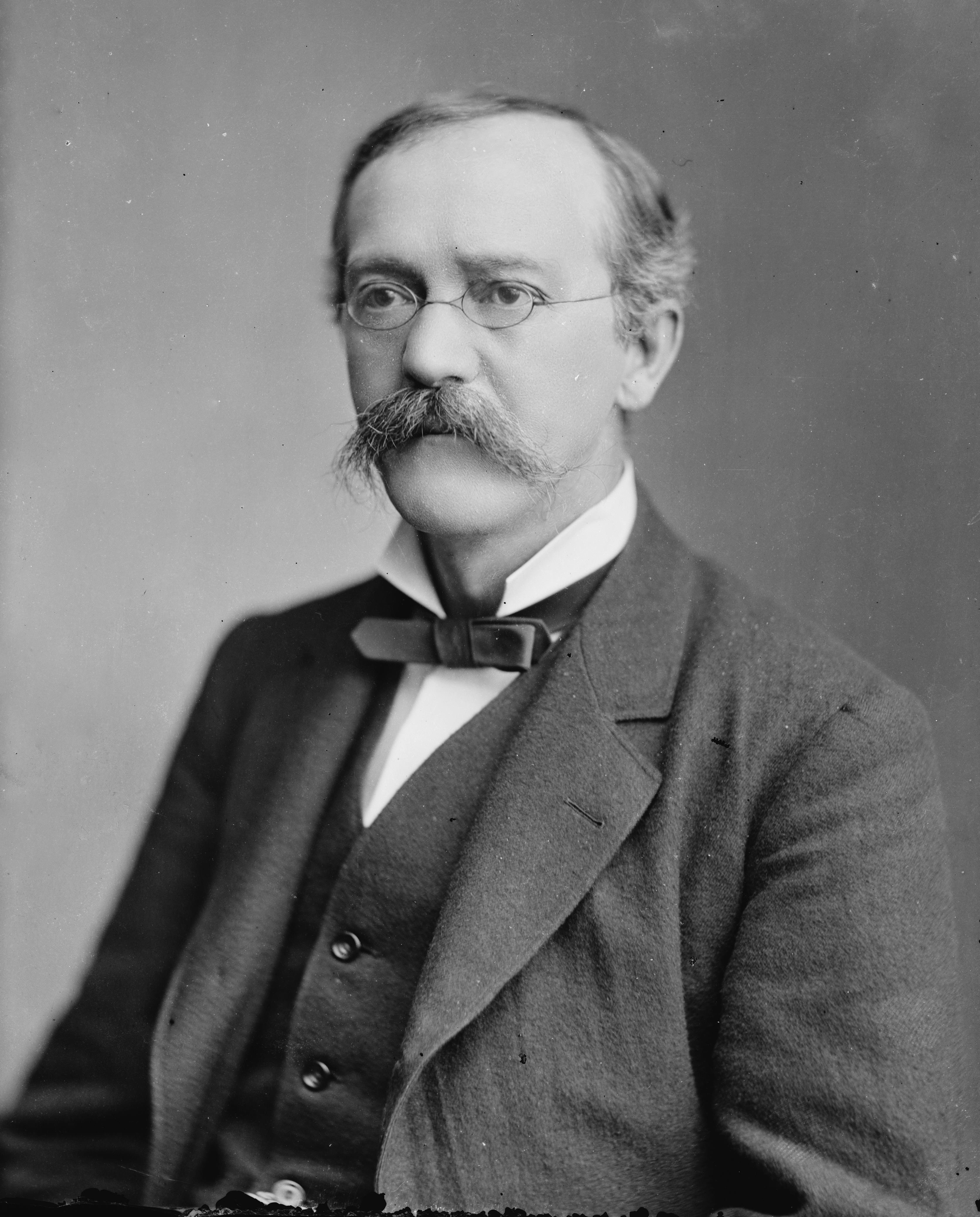 John Jay Knox. Library of Congress description: "Knox, Hon. John Jay, Controller of Currency".